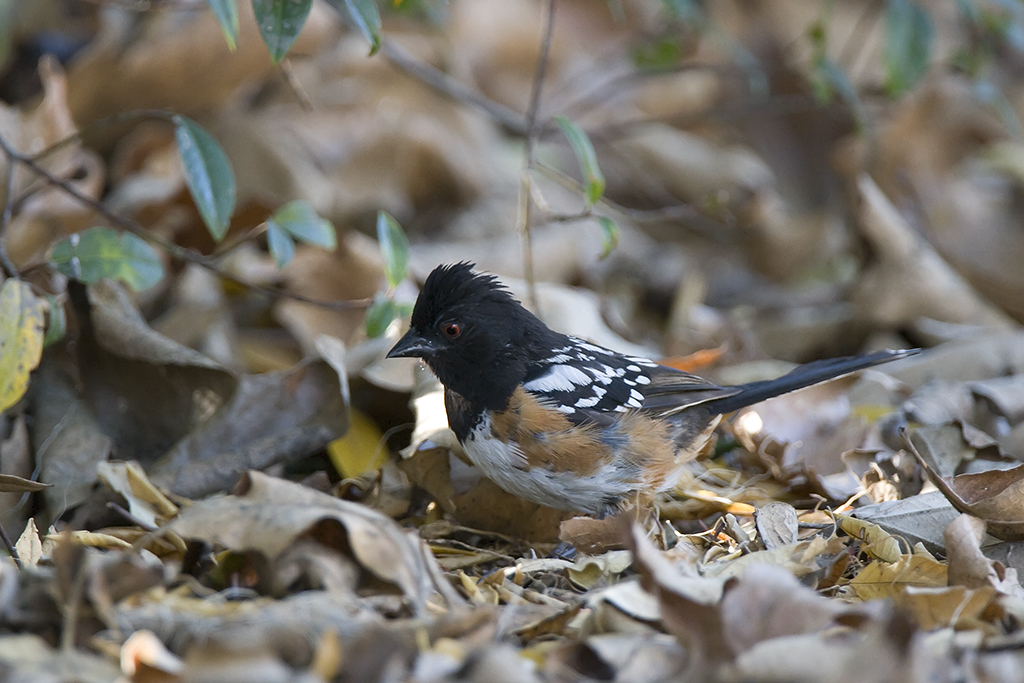 Male Spotted Towhee (Pipilo maculatus)